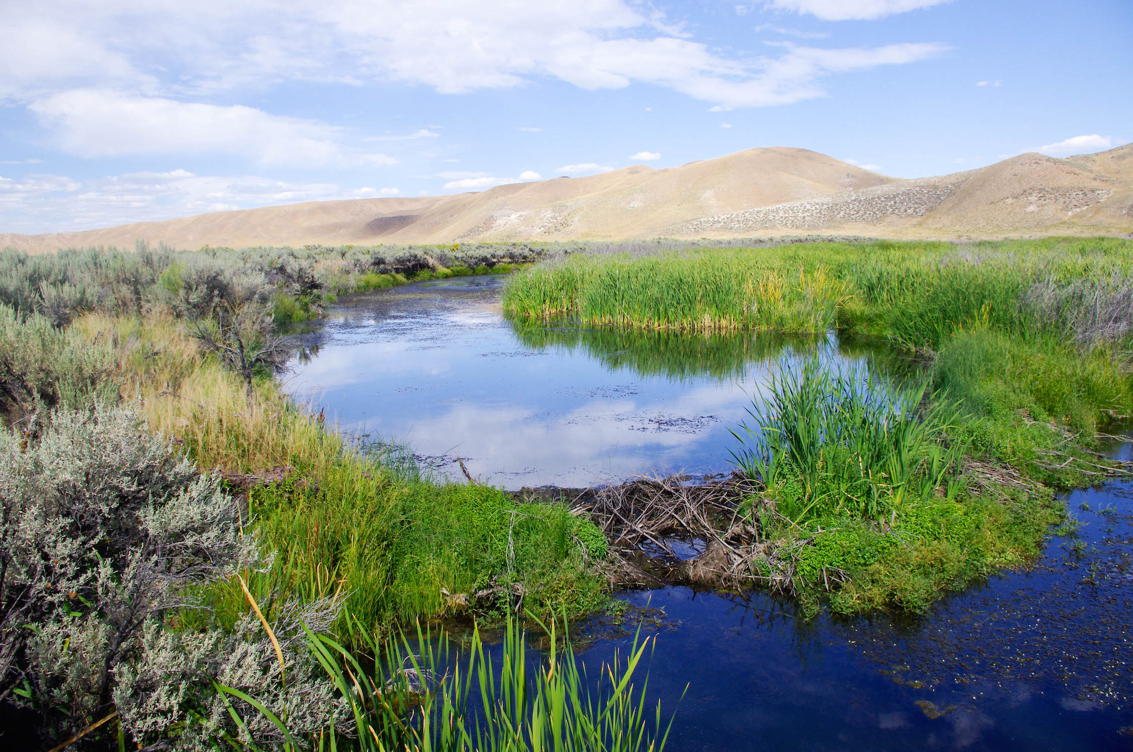 Taken from the same place as the 1980 photo of Maggie Creek, this 2011 image shows the stream’s transformation. (Photo credit: Elko District, BLM)